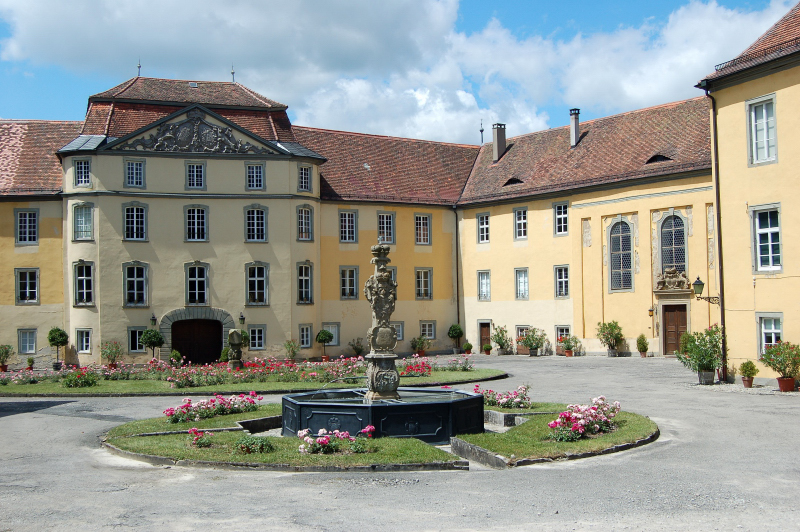 Castle Bartenstein, Bartenstein, Schrozberg, Germany